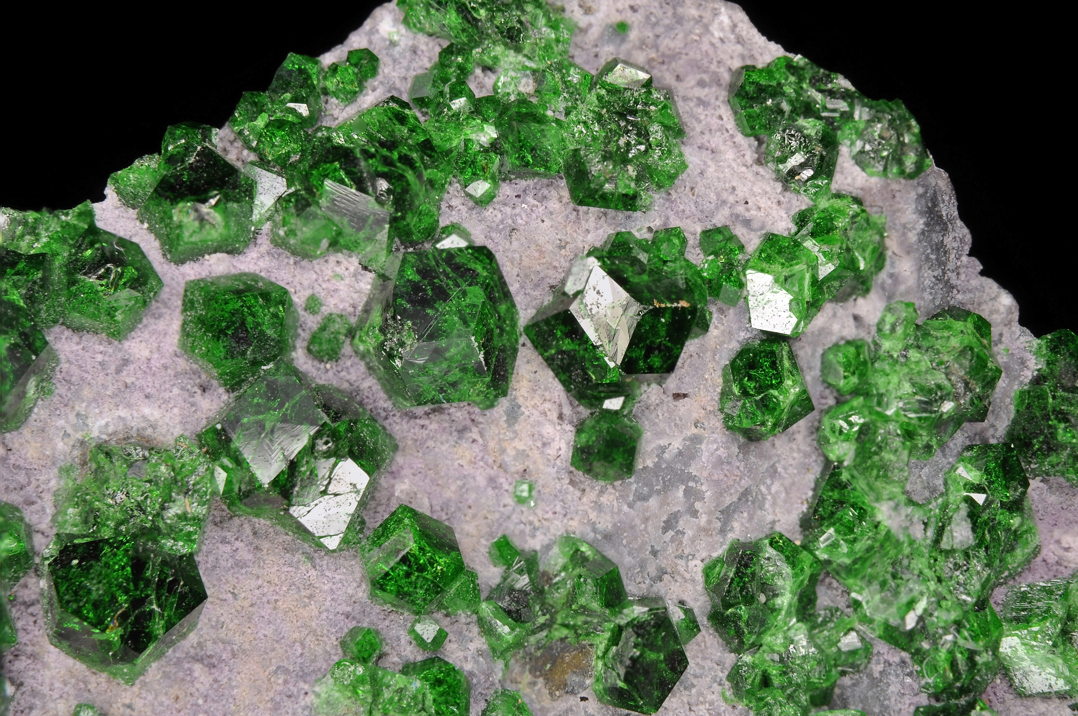 garnet var. uvarovite : Saranovskii Mine (Saranovskoe), Saranovskaya (Sarany) Village, Gornoazavodskii area, Permskaya Oblast’, Middle Urals, Urals Region, Russia - crystals : 4 mm